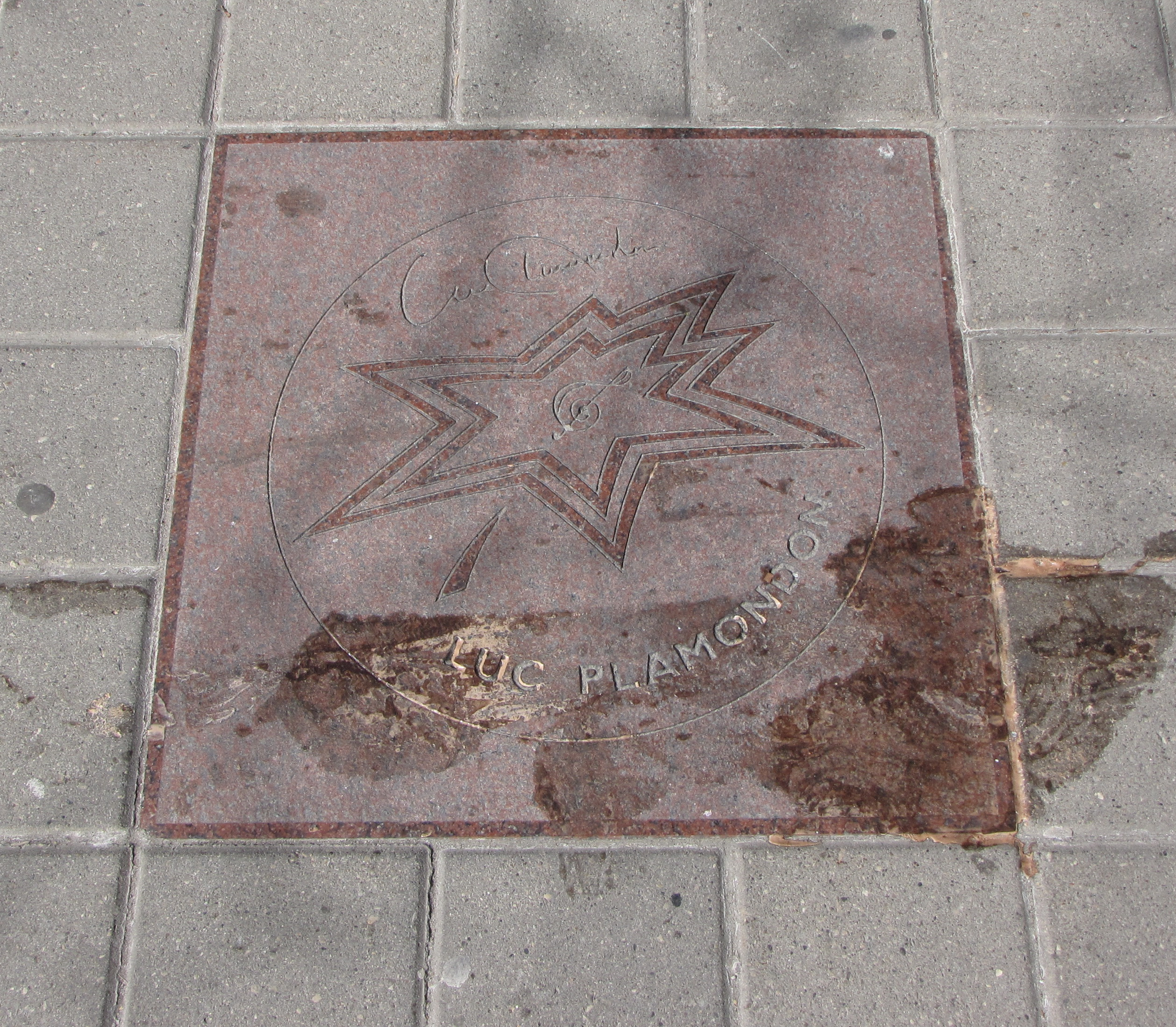 Luc Plamondon's star on Canada's Walk of Fame.